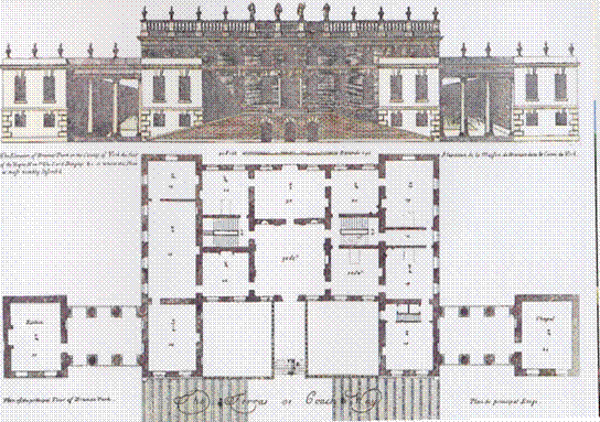 Bramham Park, West Yorkshire, drawn by Colen Campbell. This drawing was published in Vitruvius Brittanicus in 1717. Thus it is in the public domain by virtue of age.